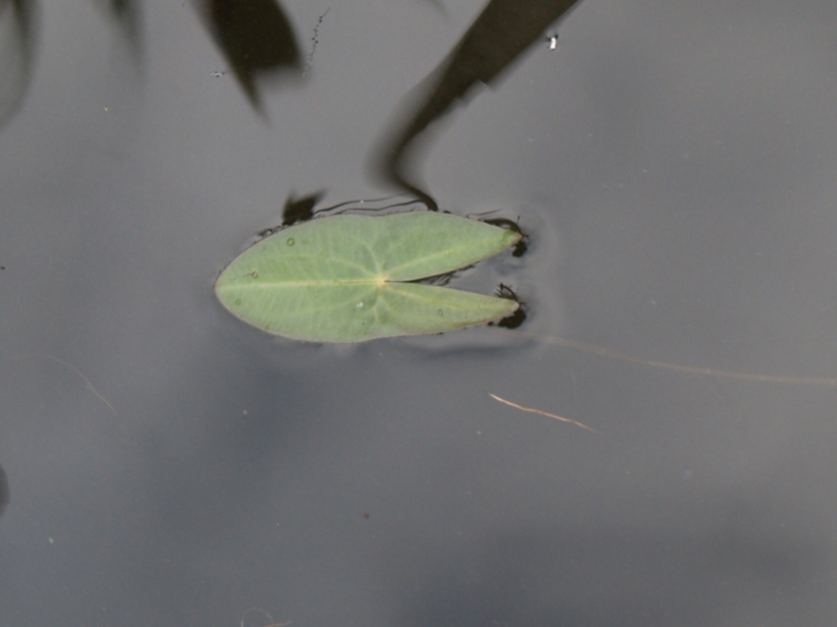 Yu Ito (2012) Aquatic plant surveys in the eastern and central parts of North America. Bulletin of Water Plant Society, Japan 98: 51-56.